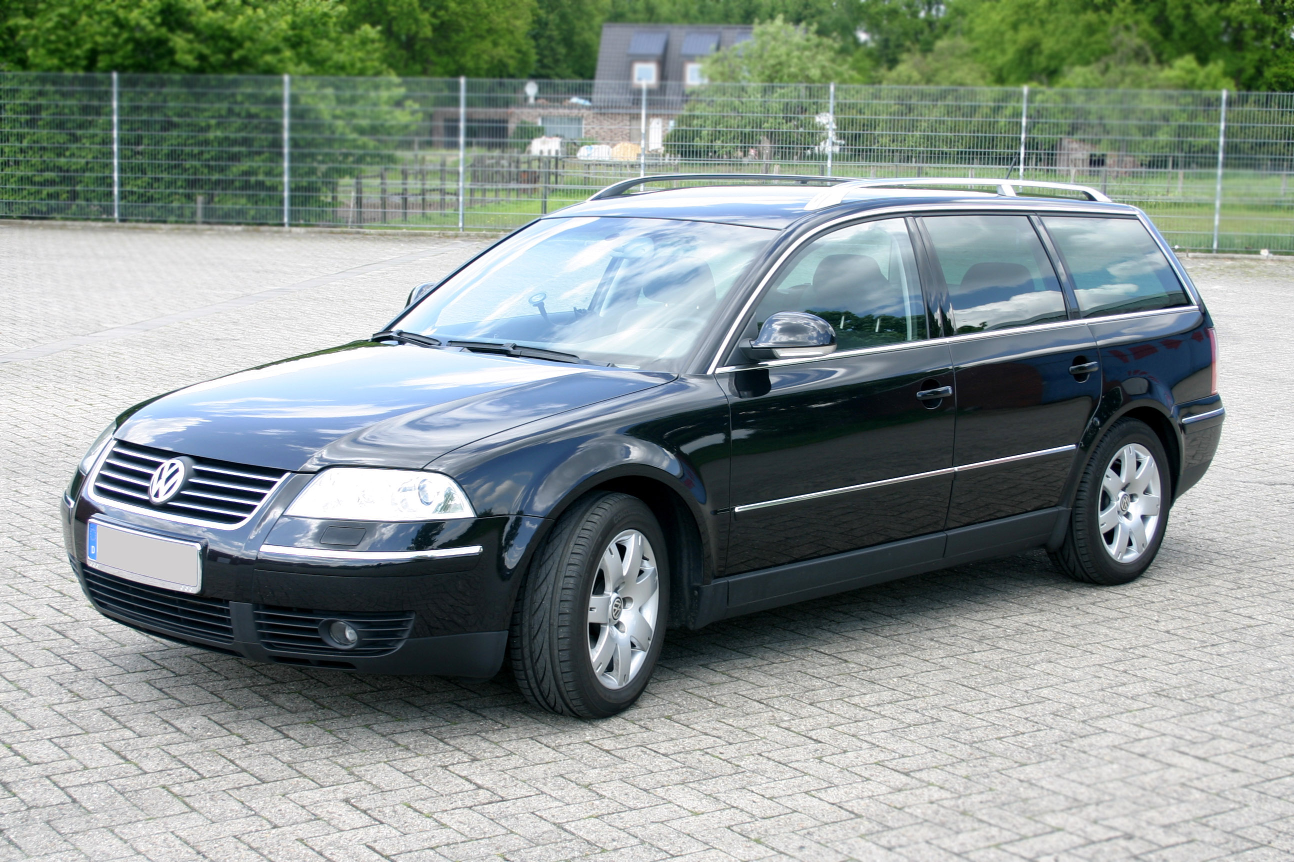 VW Passat Wagon B5 platform - year of manufacture 2004, VW Passat Variant B5GP - Baujahr 2004